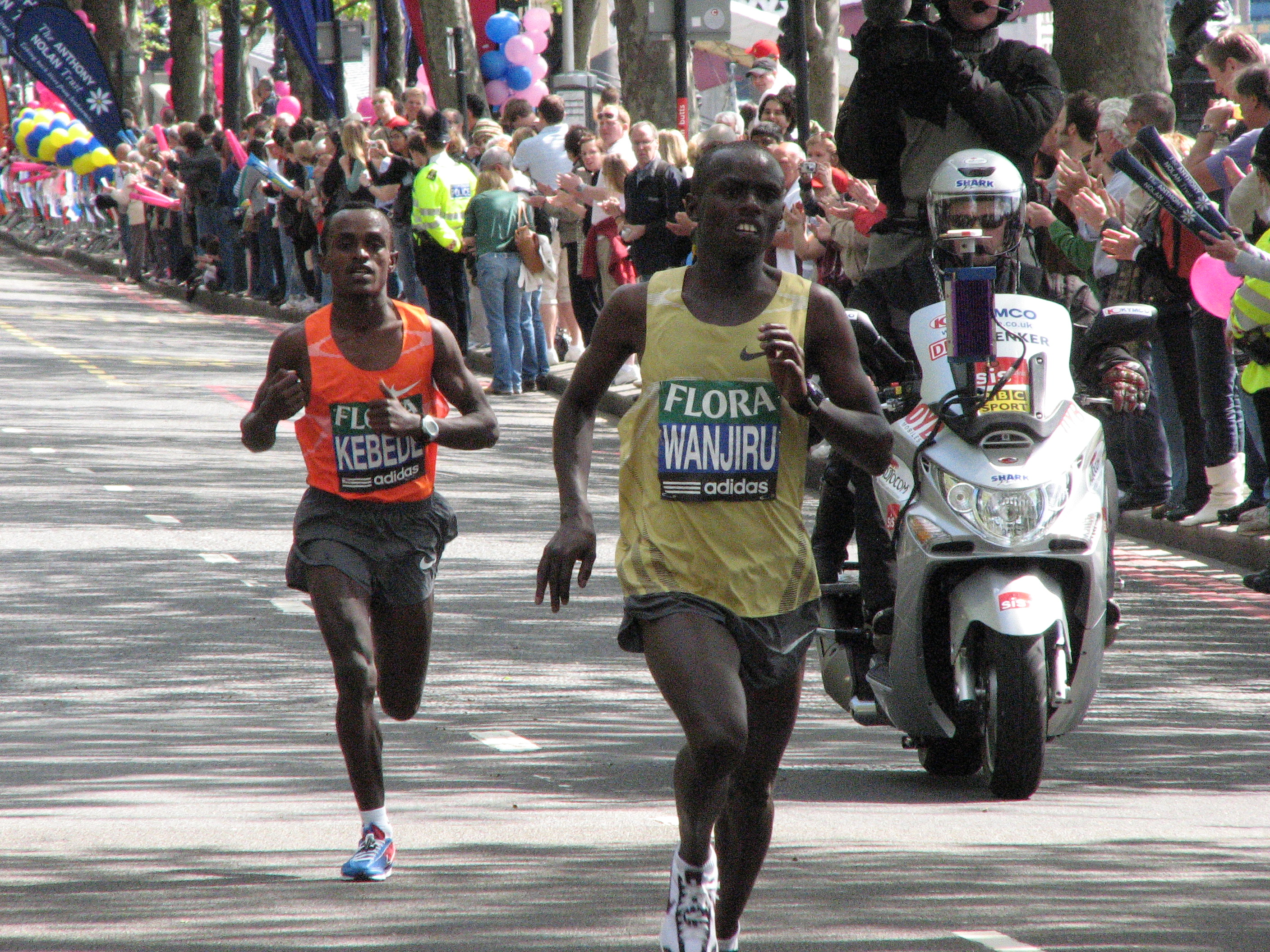 Wanjiru leads Kebede in the London Marathon 2009. This is at Mile 24 and a half, along Mid Temple right by Temple Place. Samuel Wanjiru is here a few seconds short of 1:56:00, and went on to finish in a Personal Best and new course record of 2:05:09. Kebede finished second.